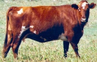 Adaptaur cow